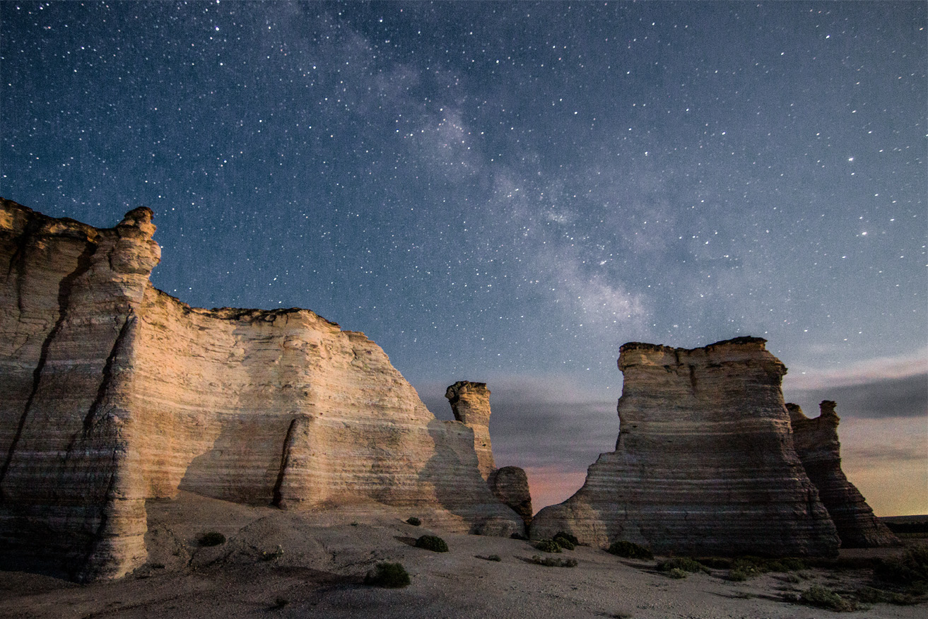 Milky Way over Monument Rocks, Kansas, USA, 8/8/2016, 10:00PM CDT